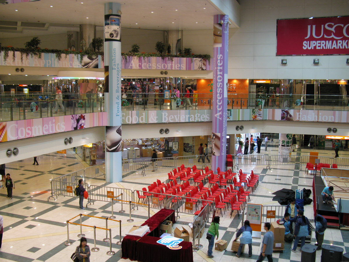 藍田 啟田商場 Kai Tin Shopping Centre, Lam Tin